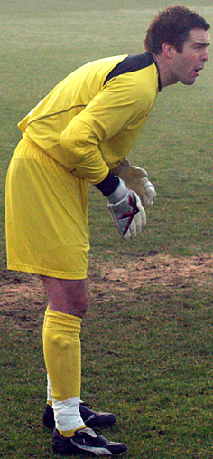 Kenny Arthur. Image cropped from original at flickr.